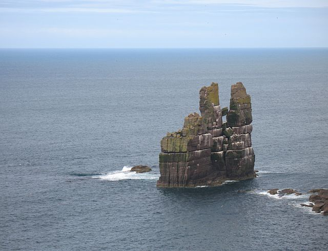 Stack Clò Kearvaig Striking pinnacle off Kearvaig. First climbed in 1989, the landward pinnacle by Guy Muhlemann and Simon Richardson, while Mick Fowler and Chris Watts knocked off the seaward pinnacle. Both graded Hard Very Severe.